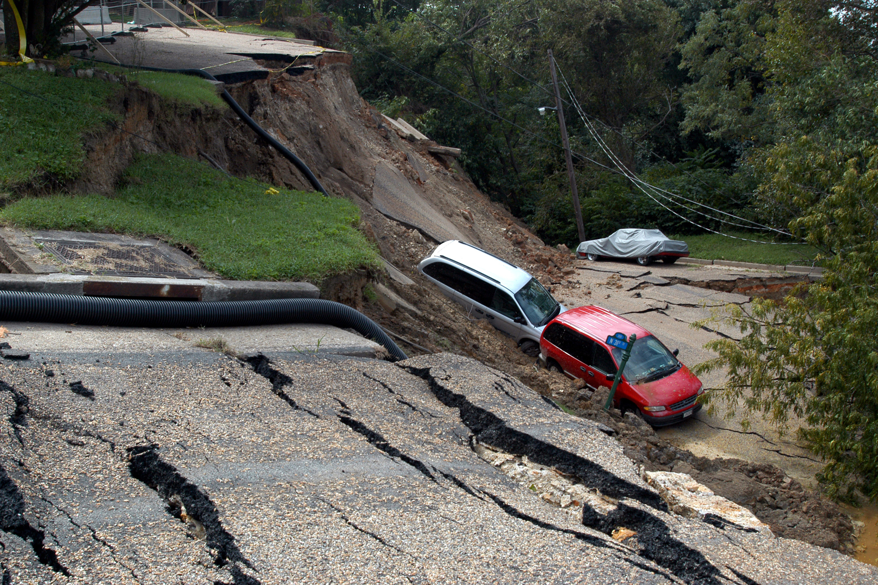 This section of E. Grace Street, Richmond, VA, collapsed during tropical storm Gaston. Gaston dropped twelve inches of rain in the area.